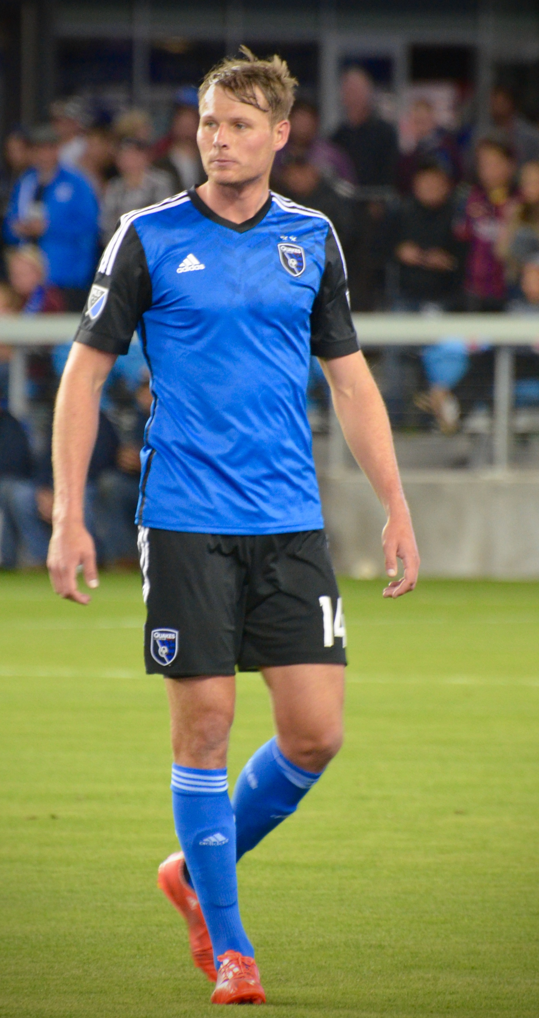 Adam Jahn at Avaya Stadium 11 April 2015